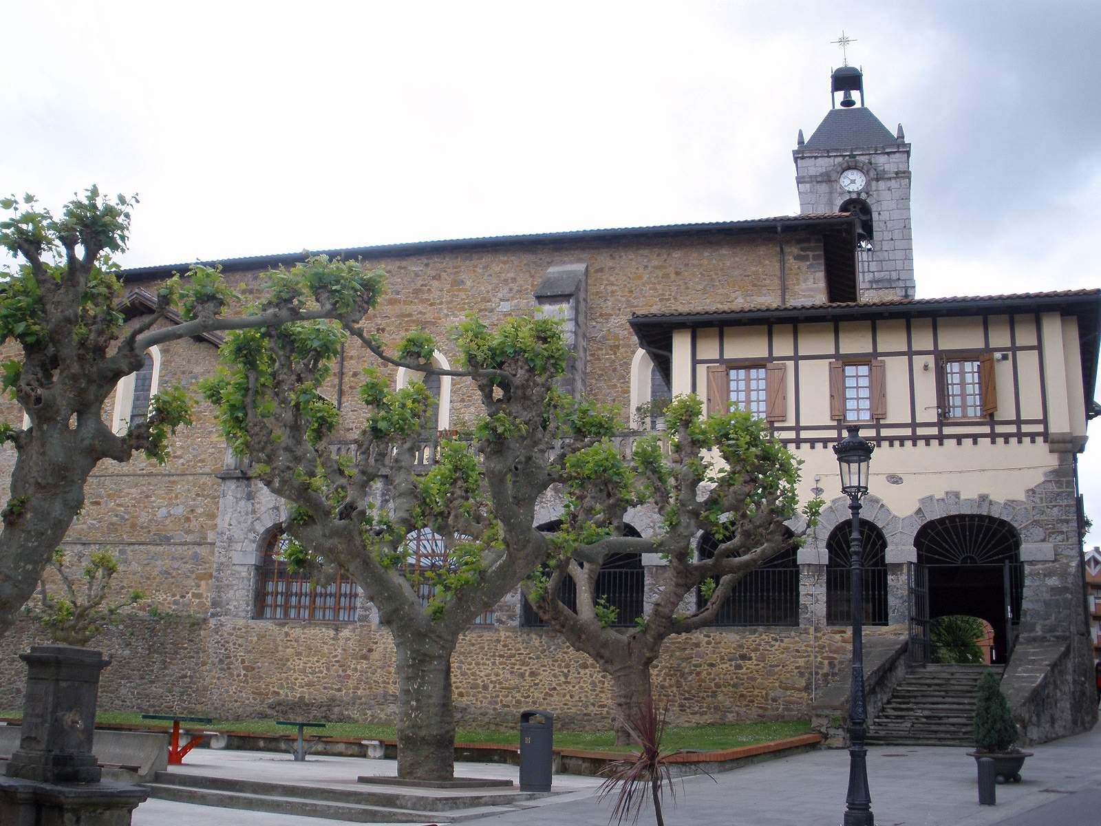 Iglesia de Santa María Magdalena, Arrigorriaga